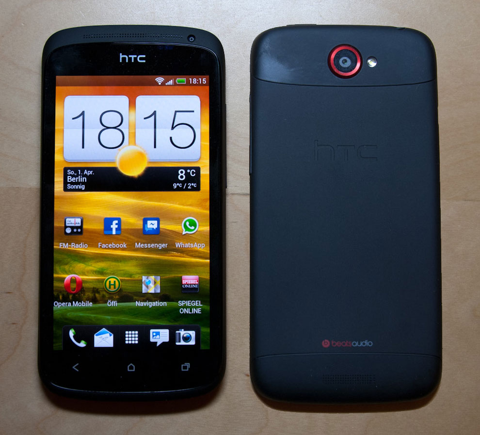 The HTC One S Smartphone